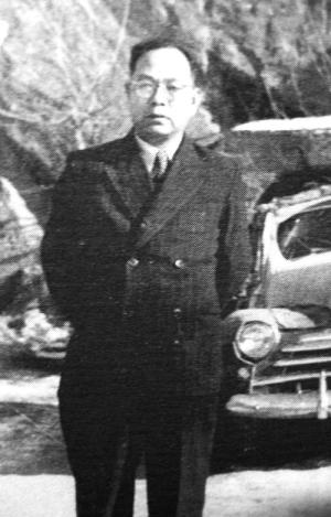 Pak Hon yong